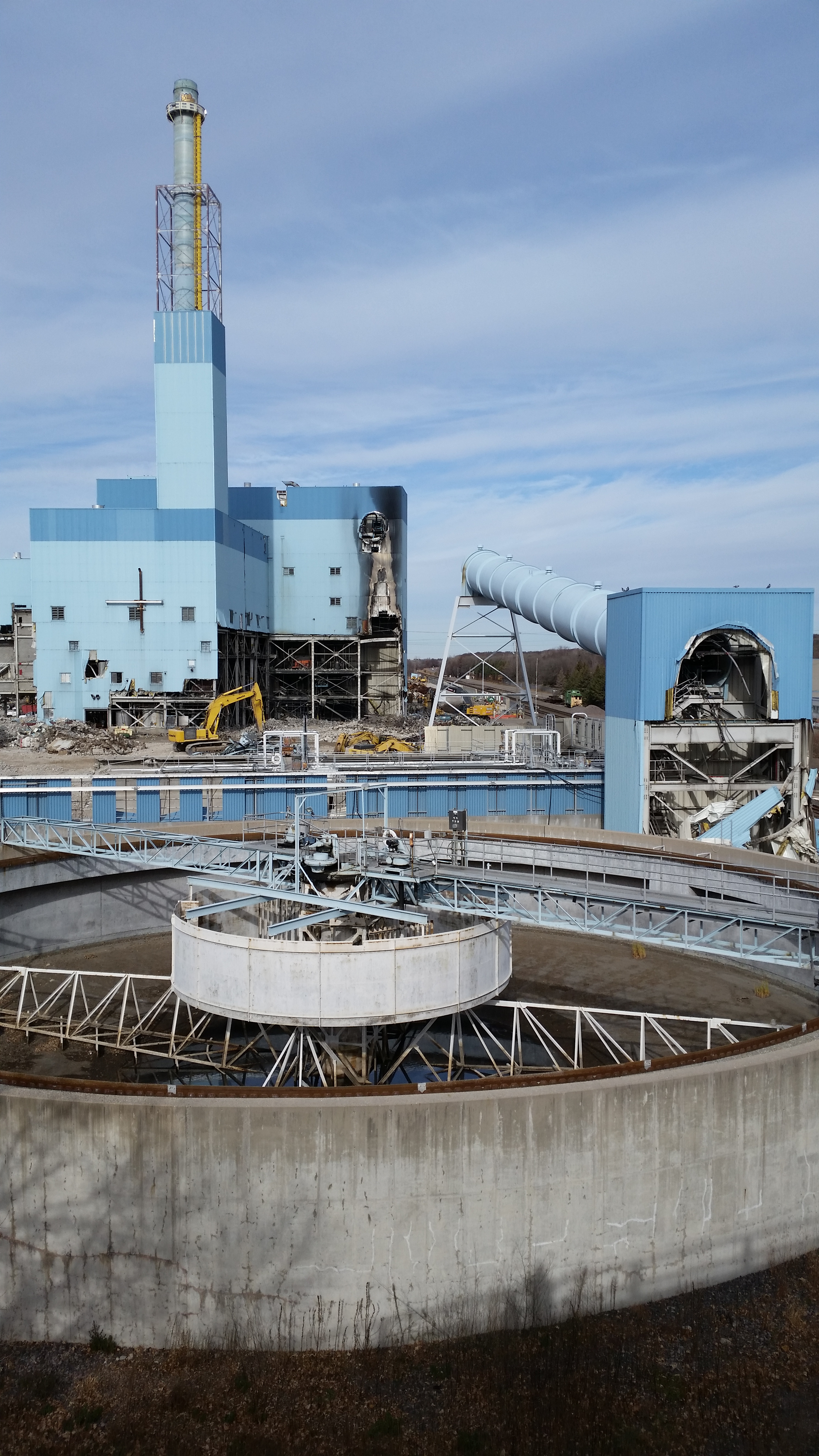 Paper mill in Sartell, MN, during demolition. Burn damage is apparently from a fire in August 2014.